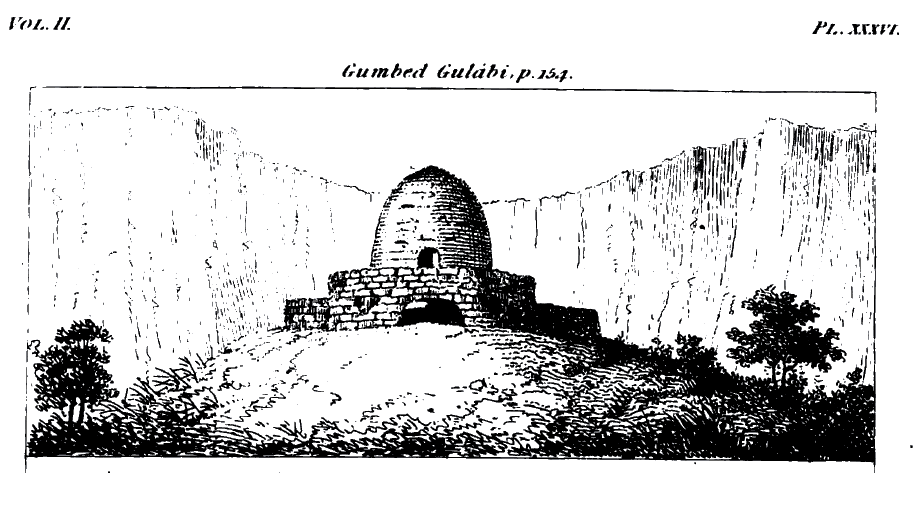 Azarjoo Fire temple, Darabgerd, Fars province, Iran